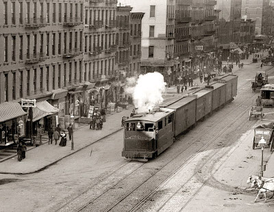 Title: R.R. [Railroad] on 11th Ave., N. Y. City Abstract/medium: 1 negative : glass ; 5 x 7 in. or smaller.